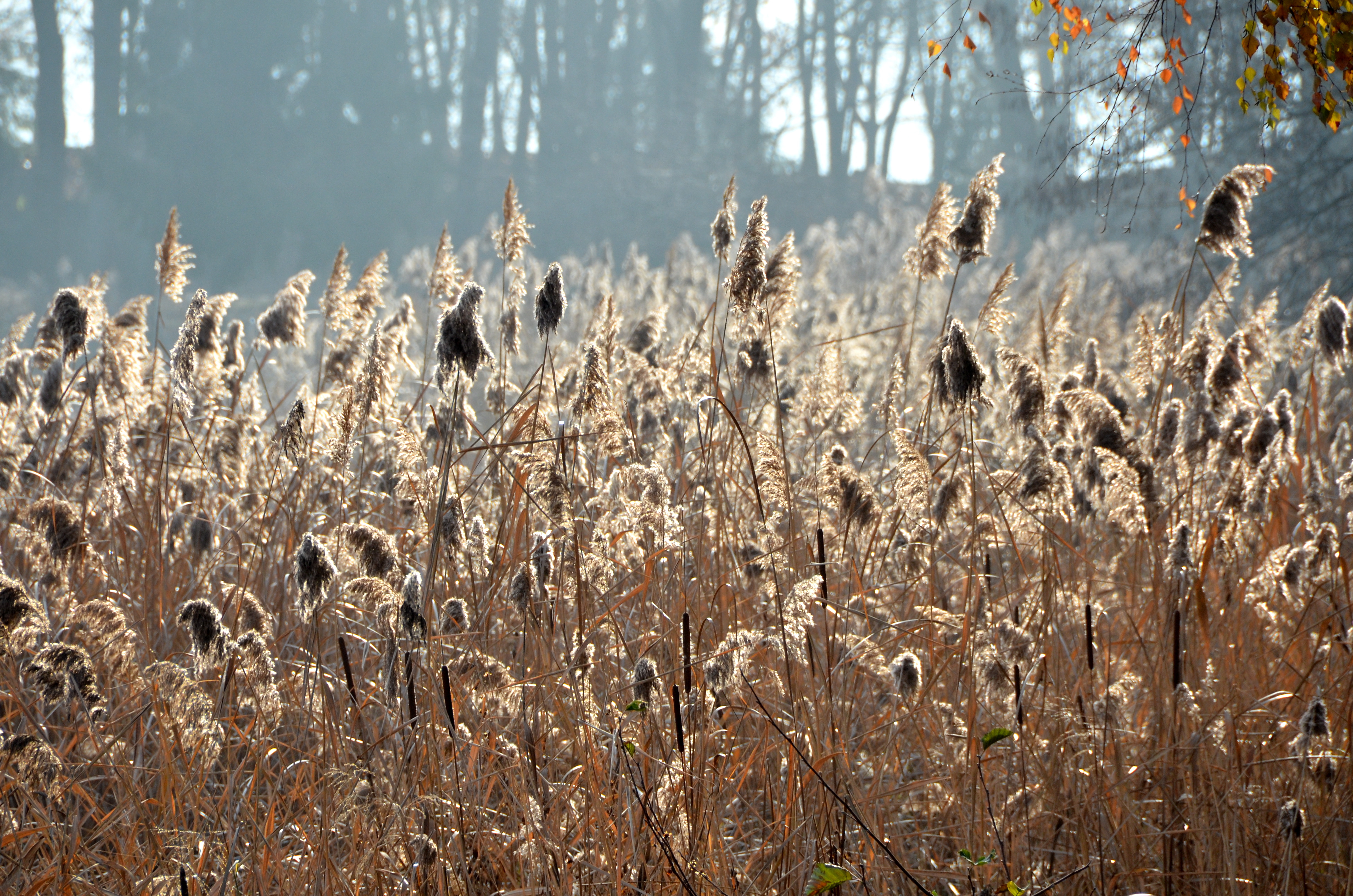 Common reed (Phragmites australis) on Hans-Pruscha-Weg, municipality Poertschach on the Lake Woerth, district Klagenfurt Land, Carinthia, Austria, EU